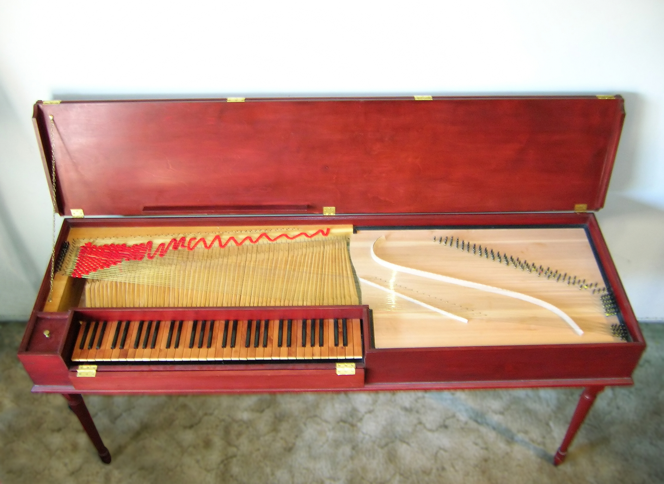 Clavichord, reworked by smial